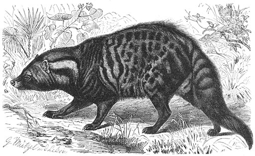 Afrikaansche Civetkat (Viverra civetta). Currently Civettictis civetta